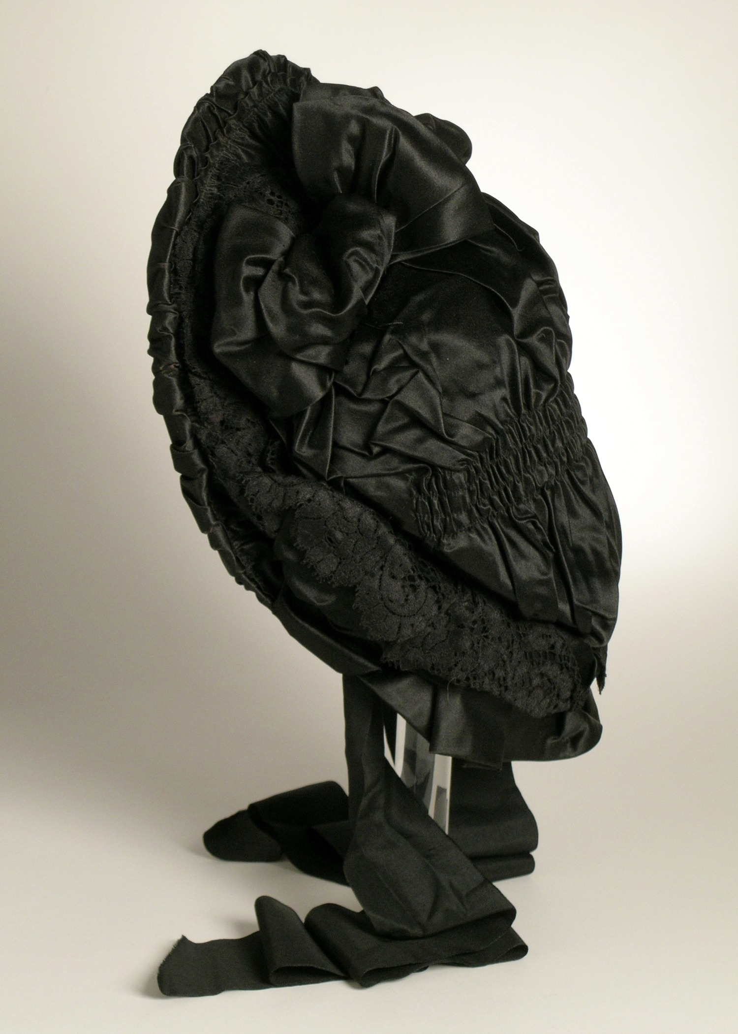 Ireland, circa 1850 Costumes; Accessories Silk satin, cotton Gift of Miss Margaret A. Hall (M.82.31.7) Costume and Textiles